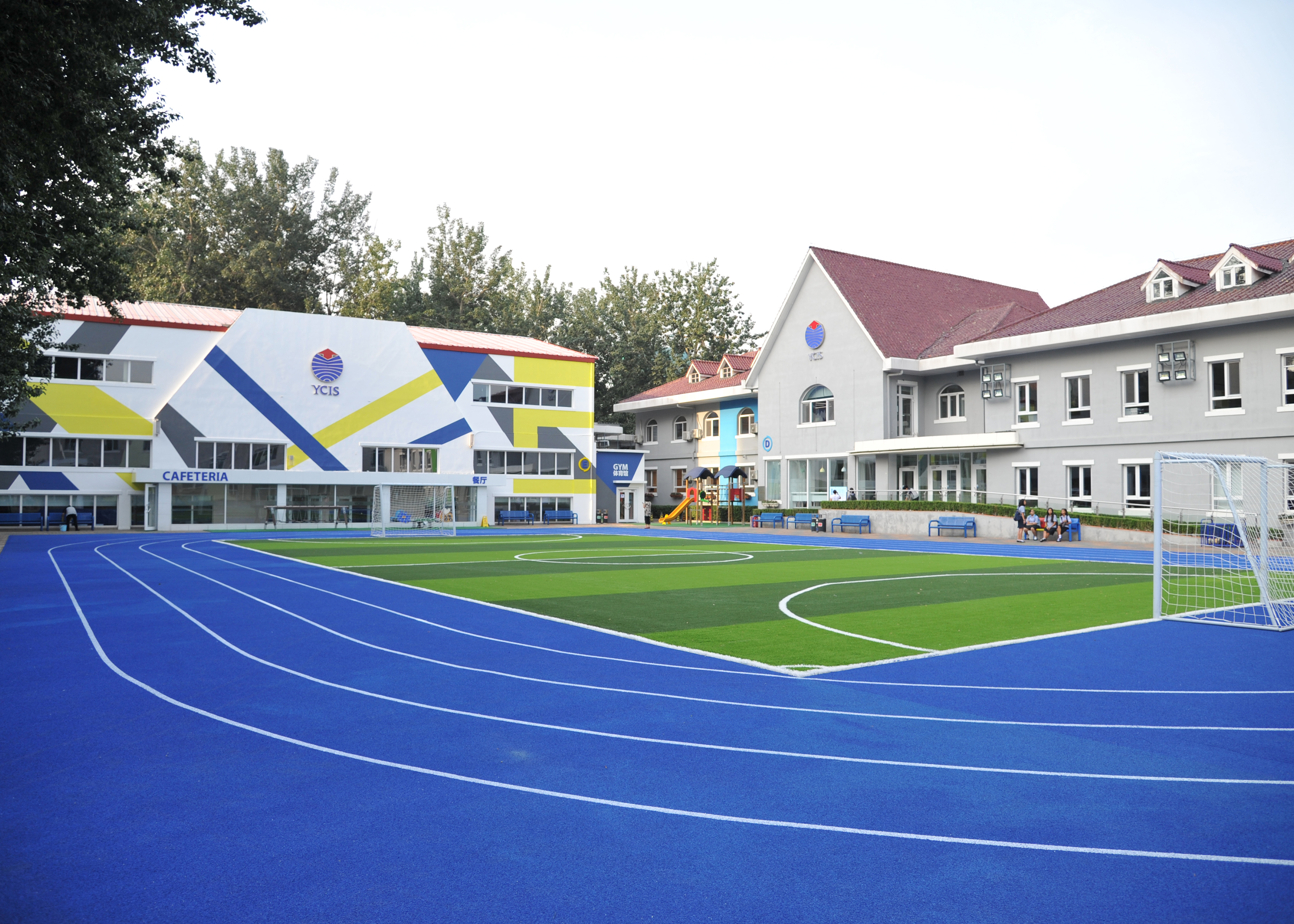 YCIS Beijing Campus on the first day of school next to Honglingjing Park.